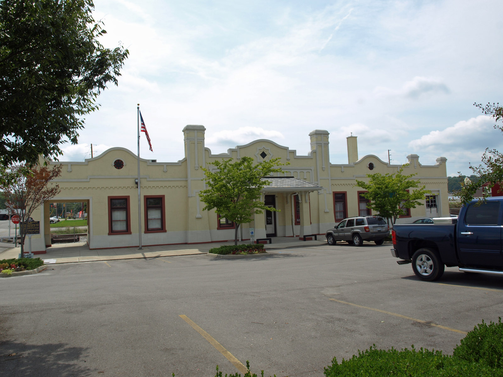 The Old L&N Depot in Cullman, Alabama, listed on the National Register of Historic Places